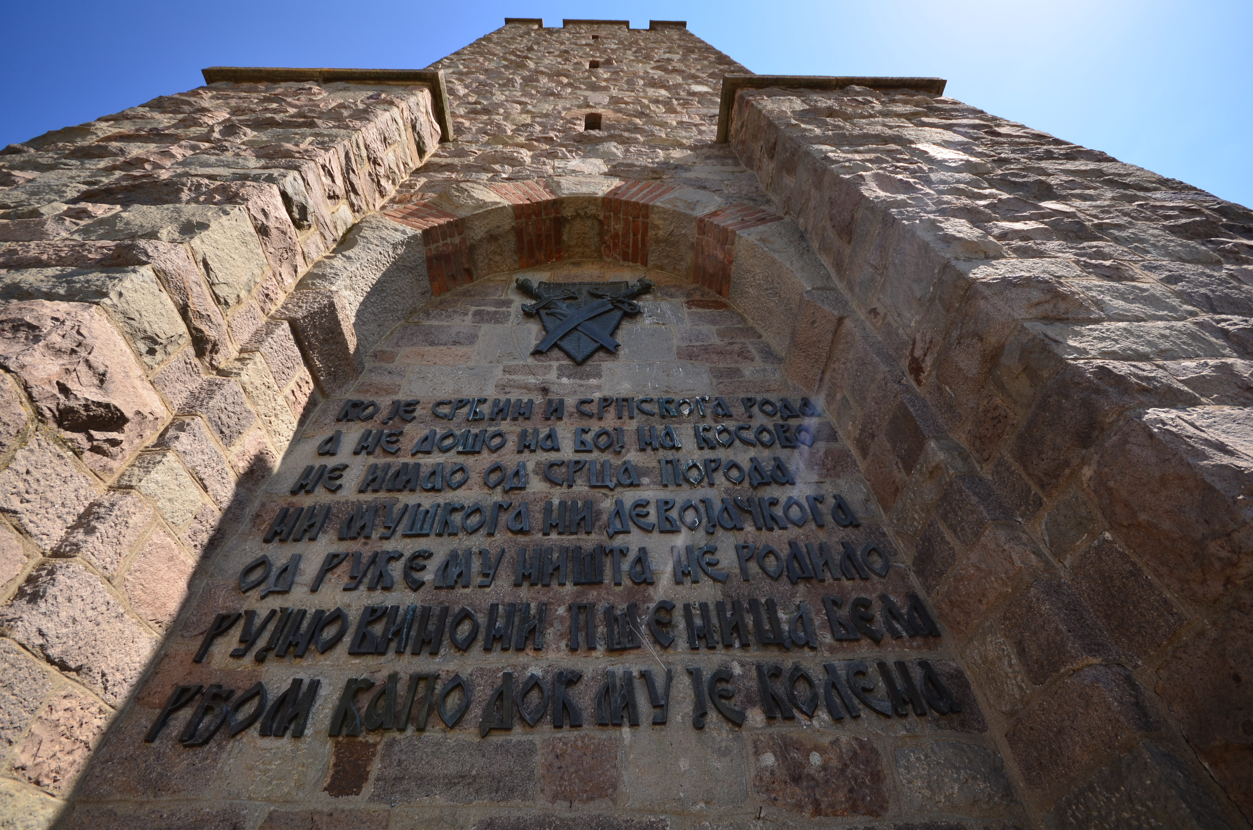 Gazimestan a monument that remembers the victims of the battle of Kosovo